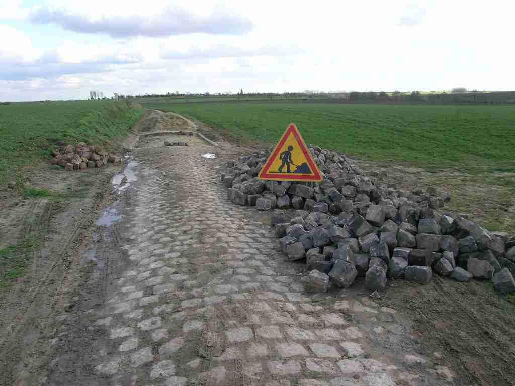 Paris-Roubaix,_Les_travaux_réalisés_en_2008.jpg